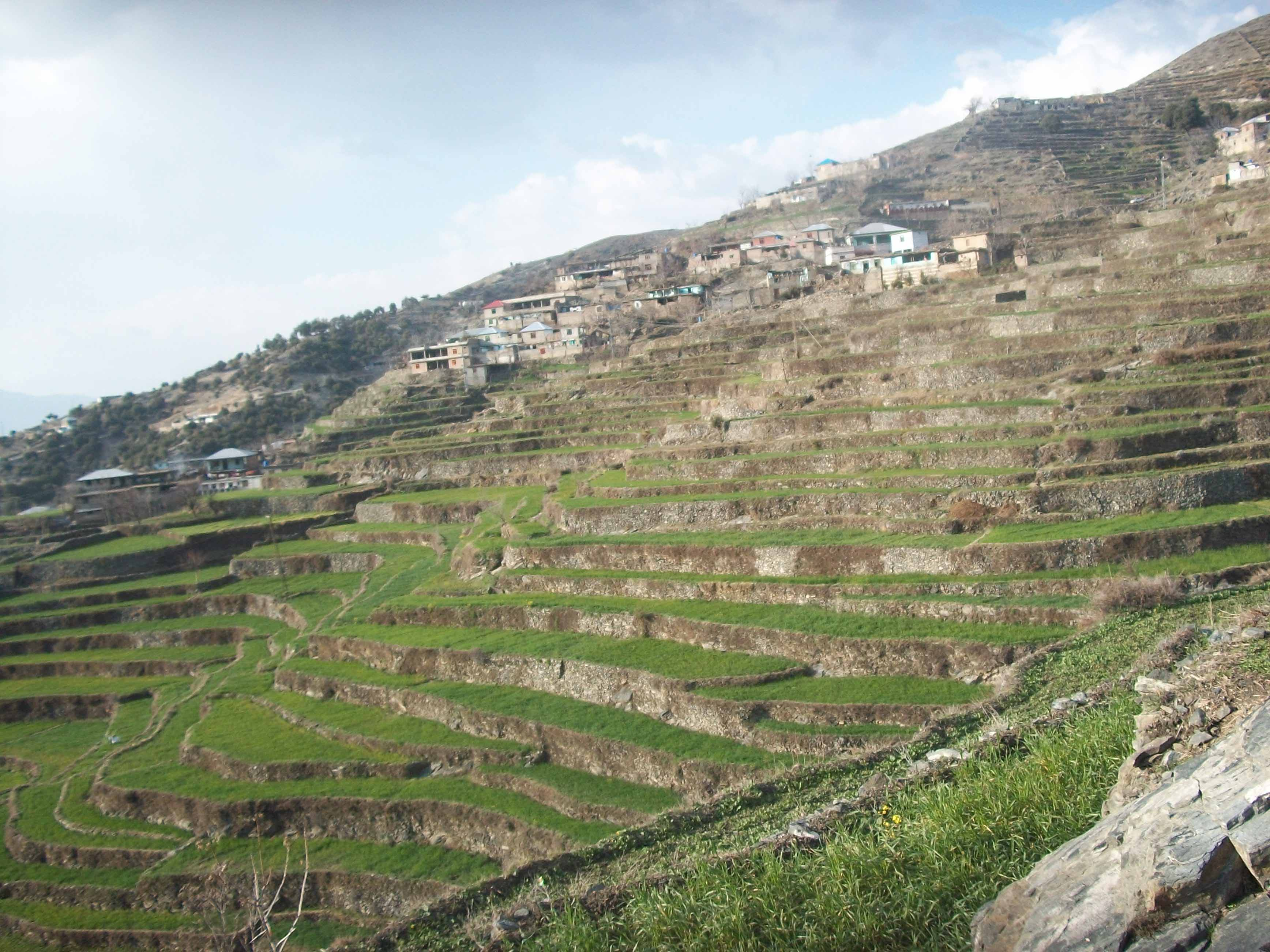 Village Kakad Wari Dir Upper KPK Pakistan